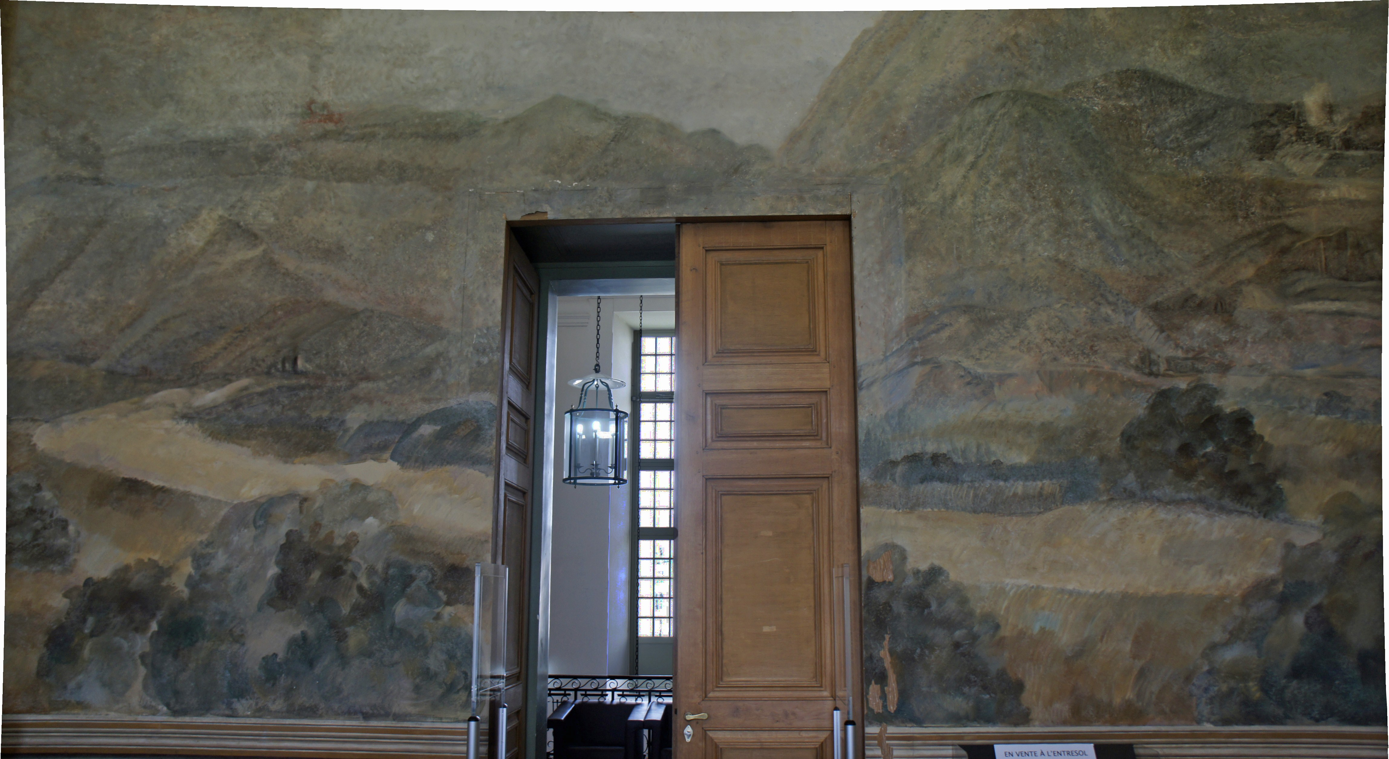 salle de lecture Louis XIV au Pavillon du roi (Château de Vincennes).